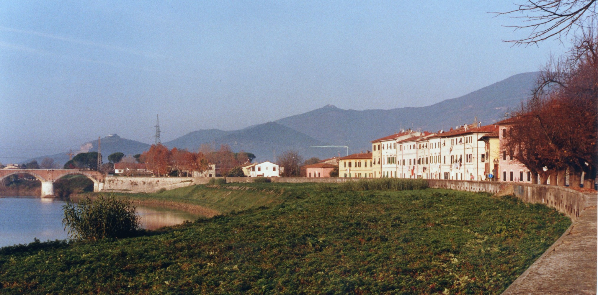 Calcinaia, Province of Pisa, Italy - Panorama